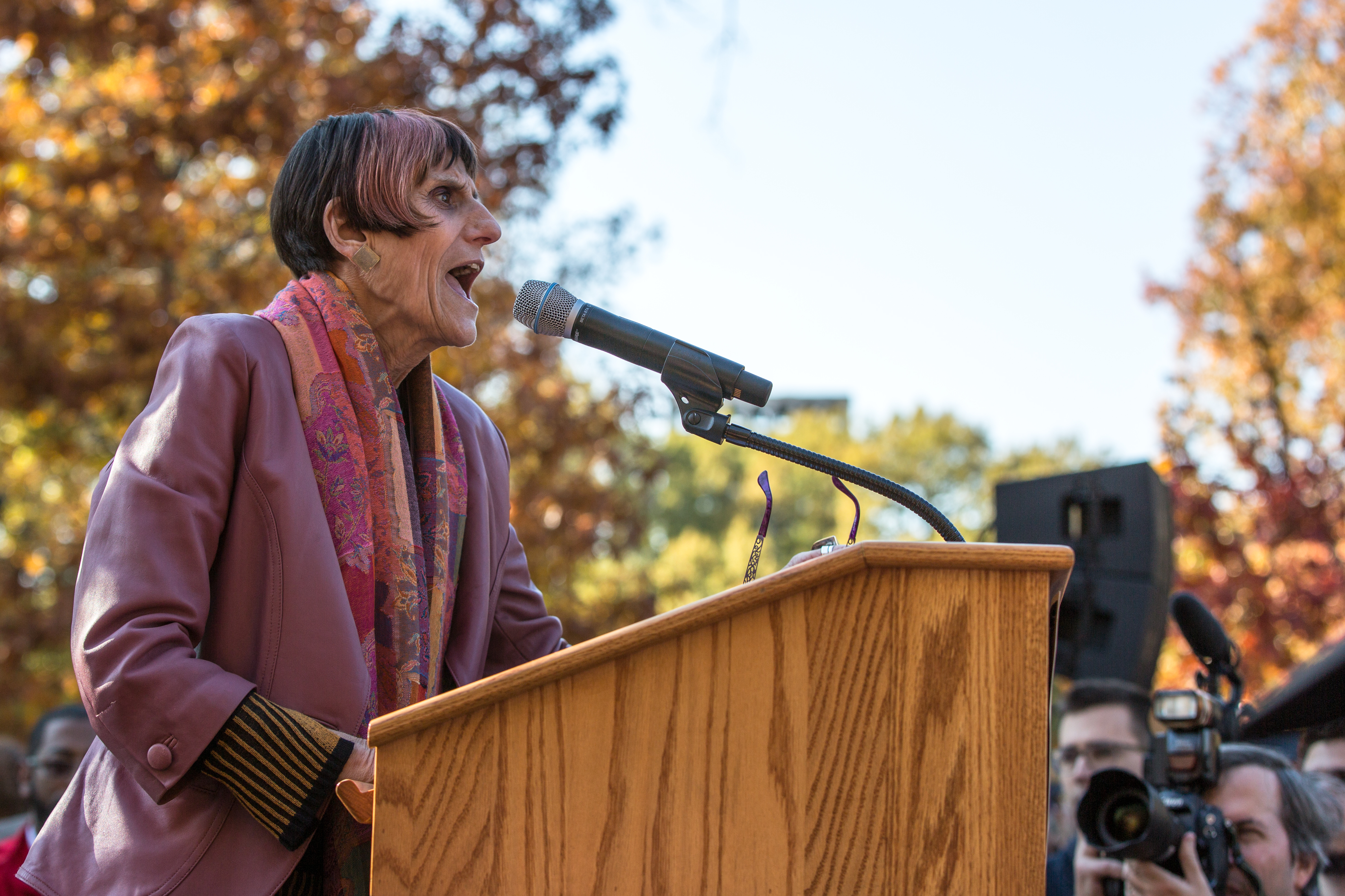 S. Capitol, Washington DC